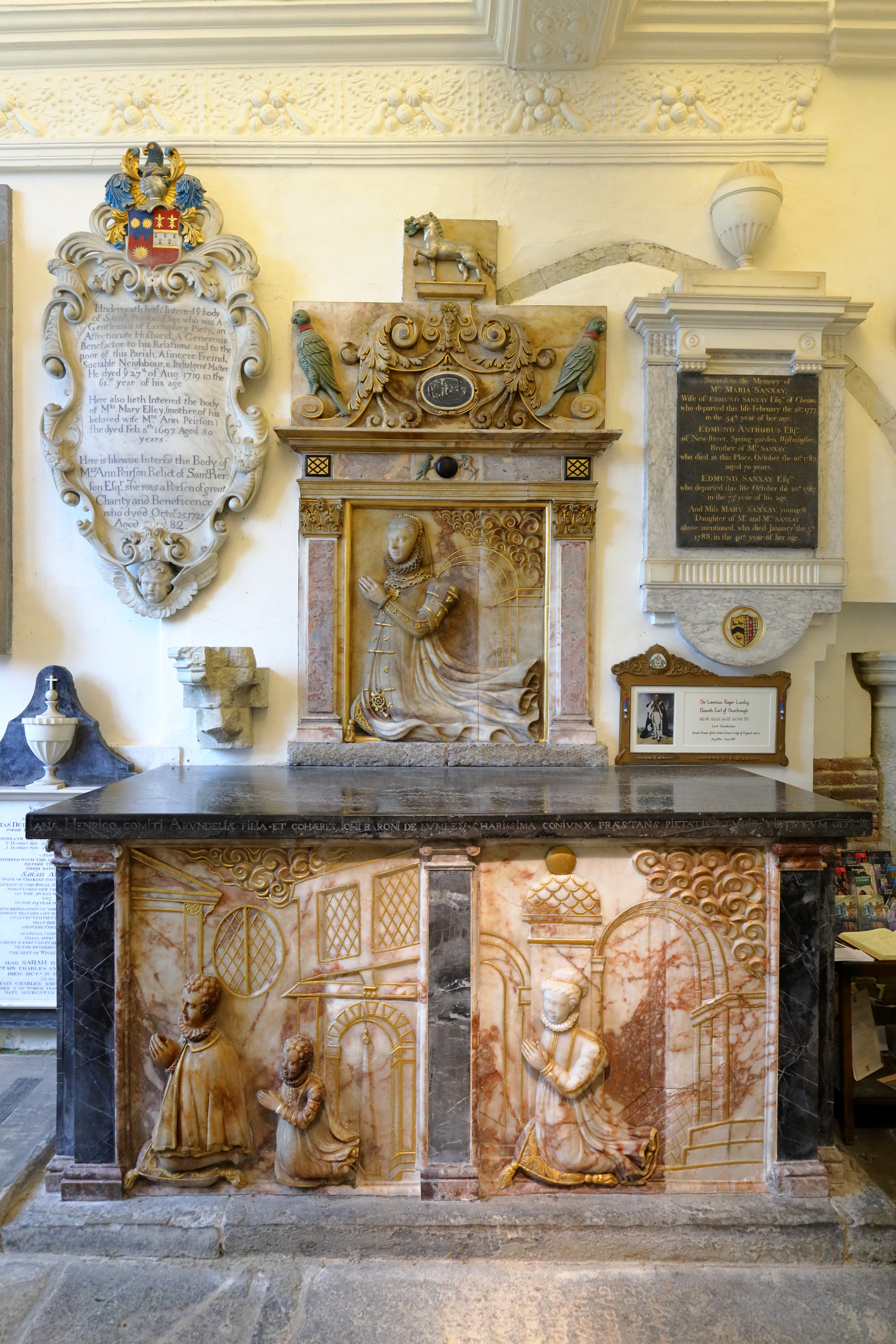 The tomb of Lady Jane Lumley within Lumley Chapel in the churchyard of St Dunstan's Church, Cheam. Wikidata has entry Q6703349 with data related to this item.